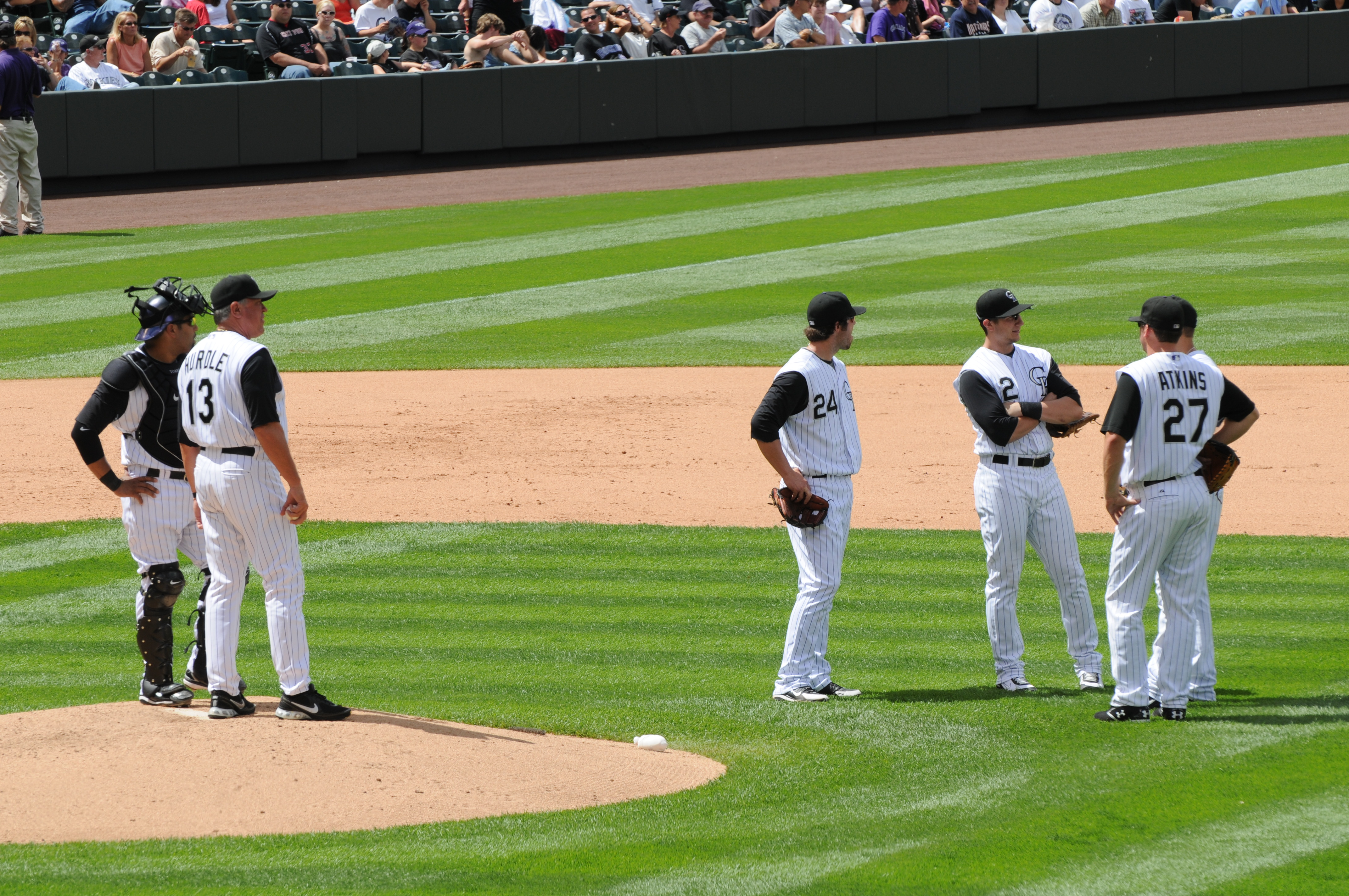 Description own work DateSourceI created this work entirely by myself.AuthorOnetwo1 (talk) 16:57, 8 August 2008 . . Onetwo1 . . 4,288×2,848 (2.98 MB) own work